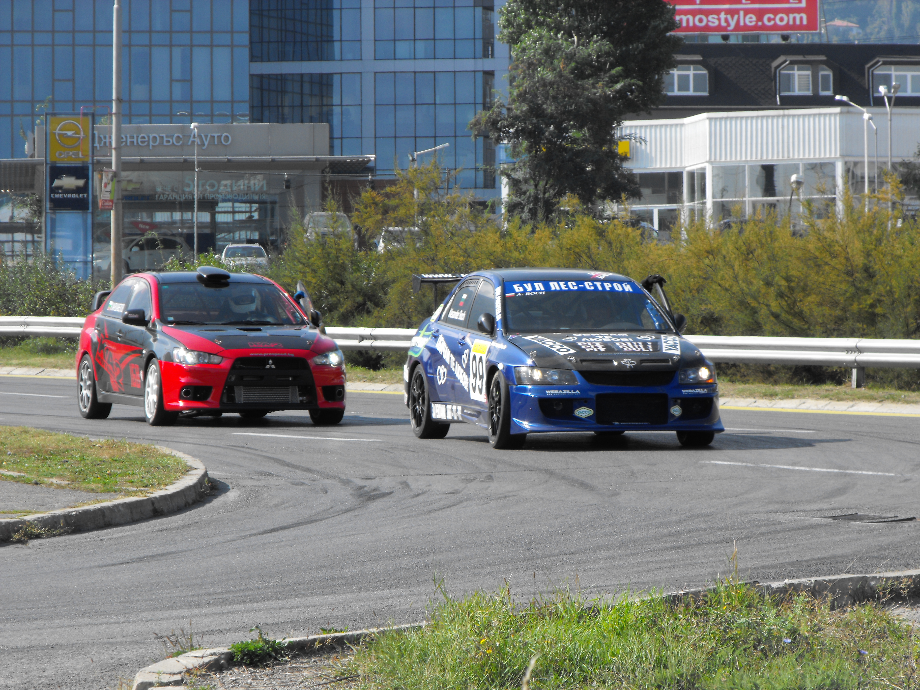 Alexander Boch - bulgarian/german racecar driver (Mitsubishi Lancer EVO 9) and Kostantin Marshavelov (Mitsubishi Lancer EVO 10), Rallye SOFIA 2009 1st and 2nd